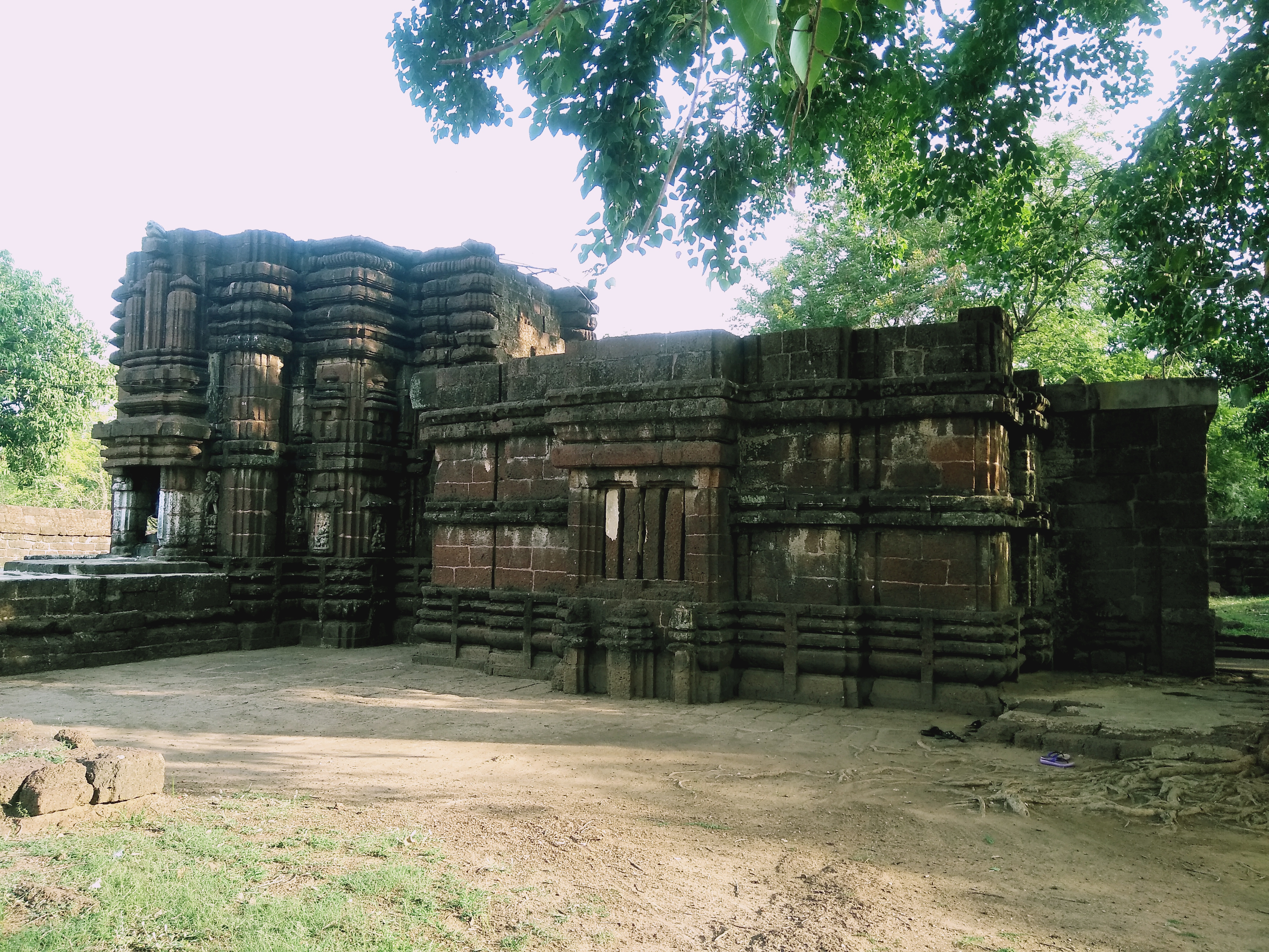 Ruined fortress, Budhalinga Temple